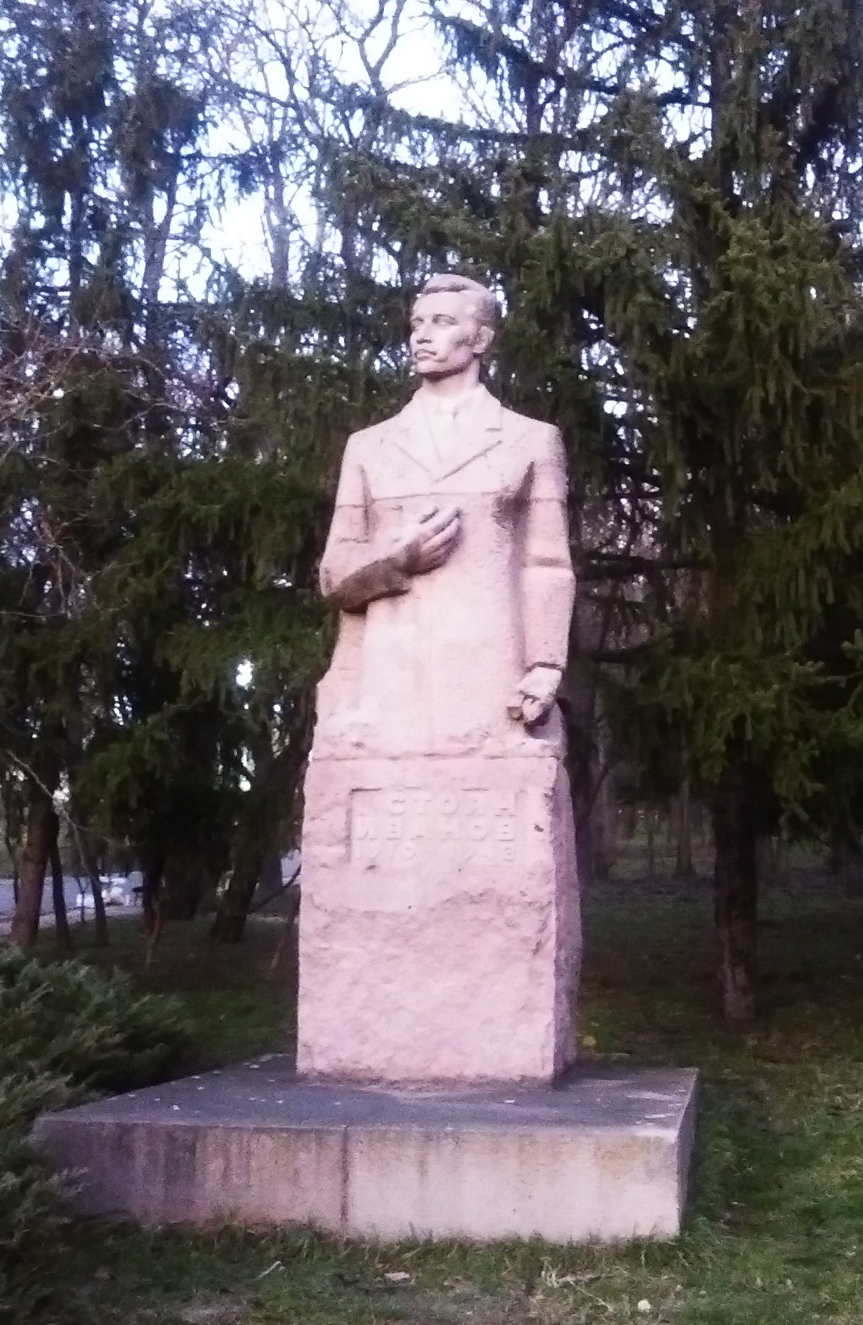 Monument to tutor and communist Stoyan Ivanov (1910-1943) in Razgrad